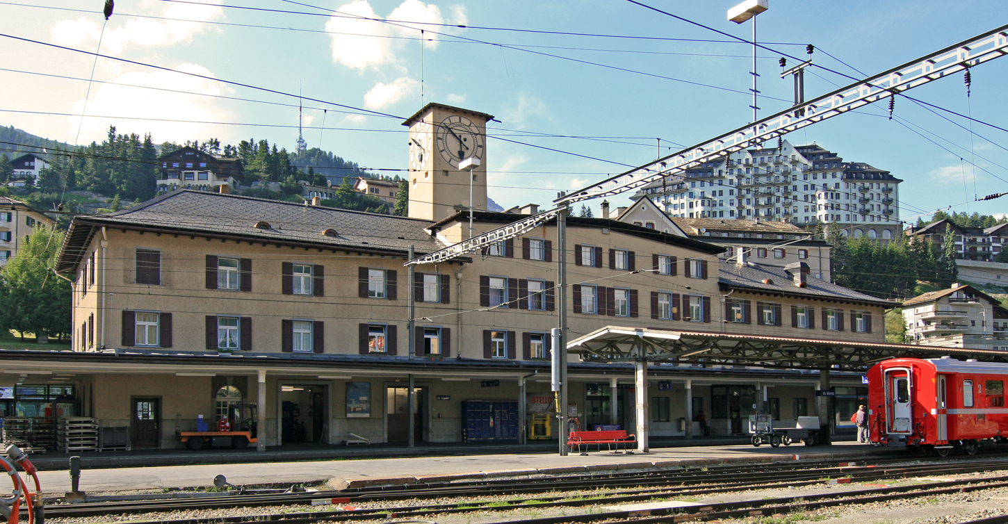 St. Mortiz train station, Switzerland.